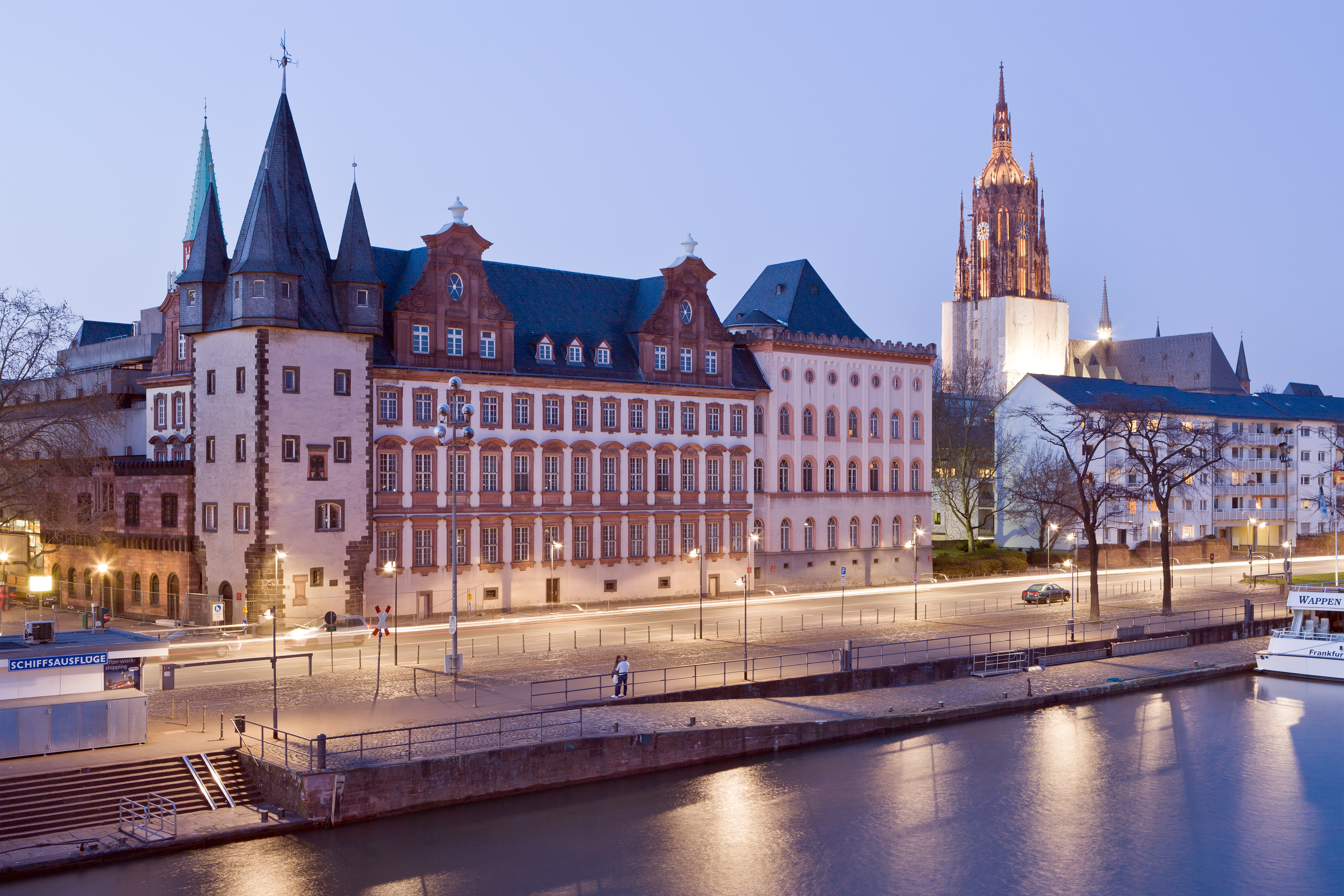 Frankfurt on the Main: Saalhof as seen from the Eiserner Steg (Iron Bridge), in the background the spire of Frankfurt Cathedral